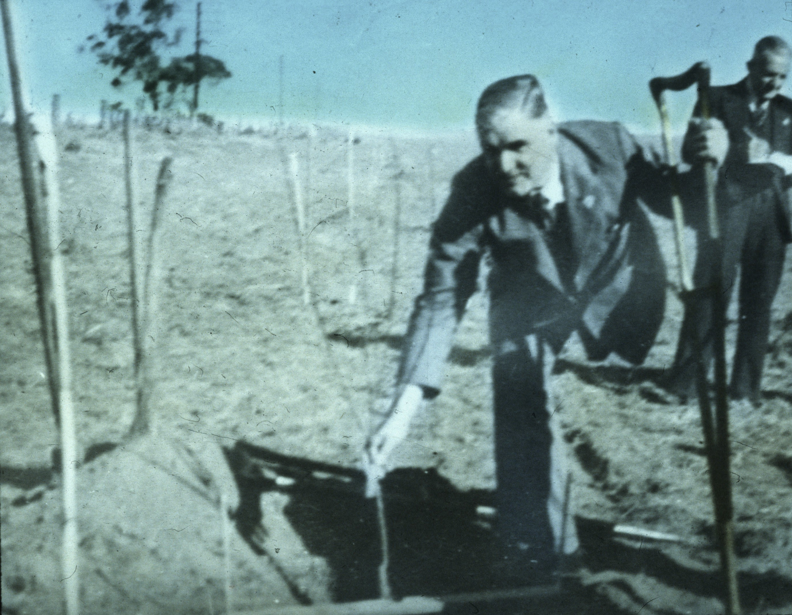 Soldiers Settlement Scheme - Not "Disabled Returned Soldier Planting a Tree..." it is Sir Cecil Hincks, Minister of Repatriation and Migration. (G Brooks) - Title changed to reflect G Brooks' notes.